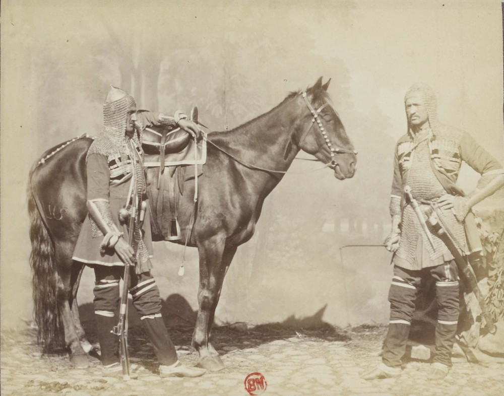 Photo abroad XIX / XX centuries, depicting two Kabardins (Kabarda (Keberdey) - medieval state in Eastern Circassia) to the horse Kabardian (Circassian) breed (adygesh) dressed in the old outfit of Kabardian aristocrats.